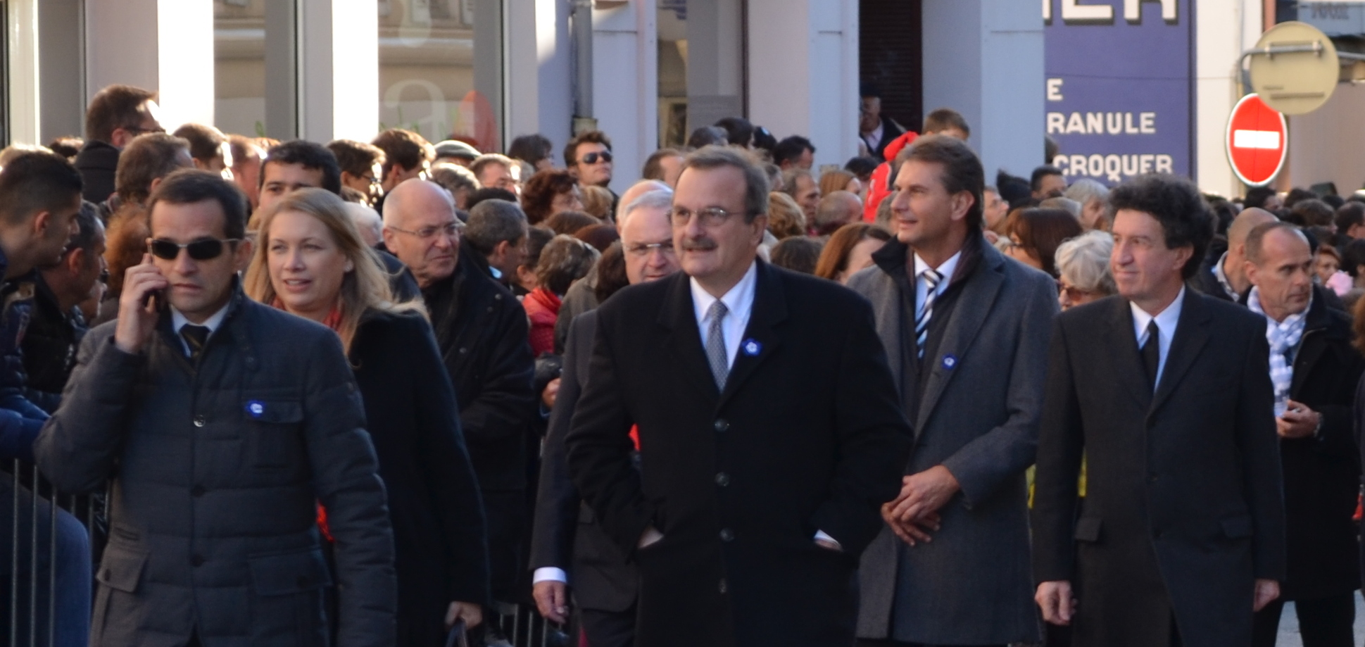 Personality rights warningAlthough this work is freely licensed or in the public domain, the person(s) shown may have rights that legally restrict certain re-uses unless those depicted consent to such uses. In these cases, a model release or other evidence of consent could protect you from infringement claims.